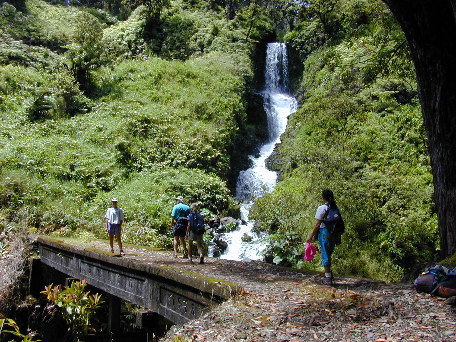 Ardisia elliptica (waterfall). Location: Maui, Wahinepee